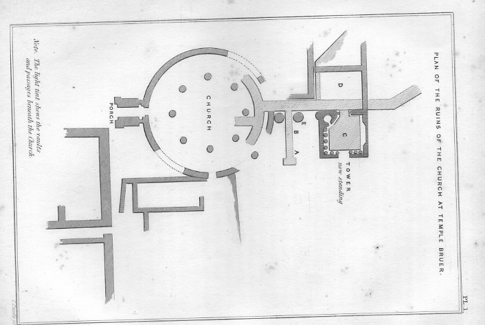 Plan of the Preceptory by Dr Oliver, 1843